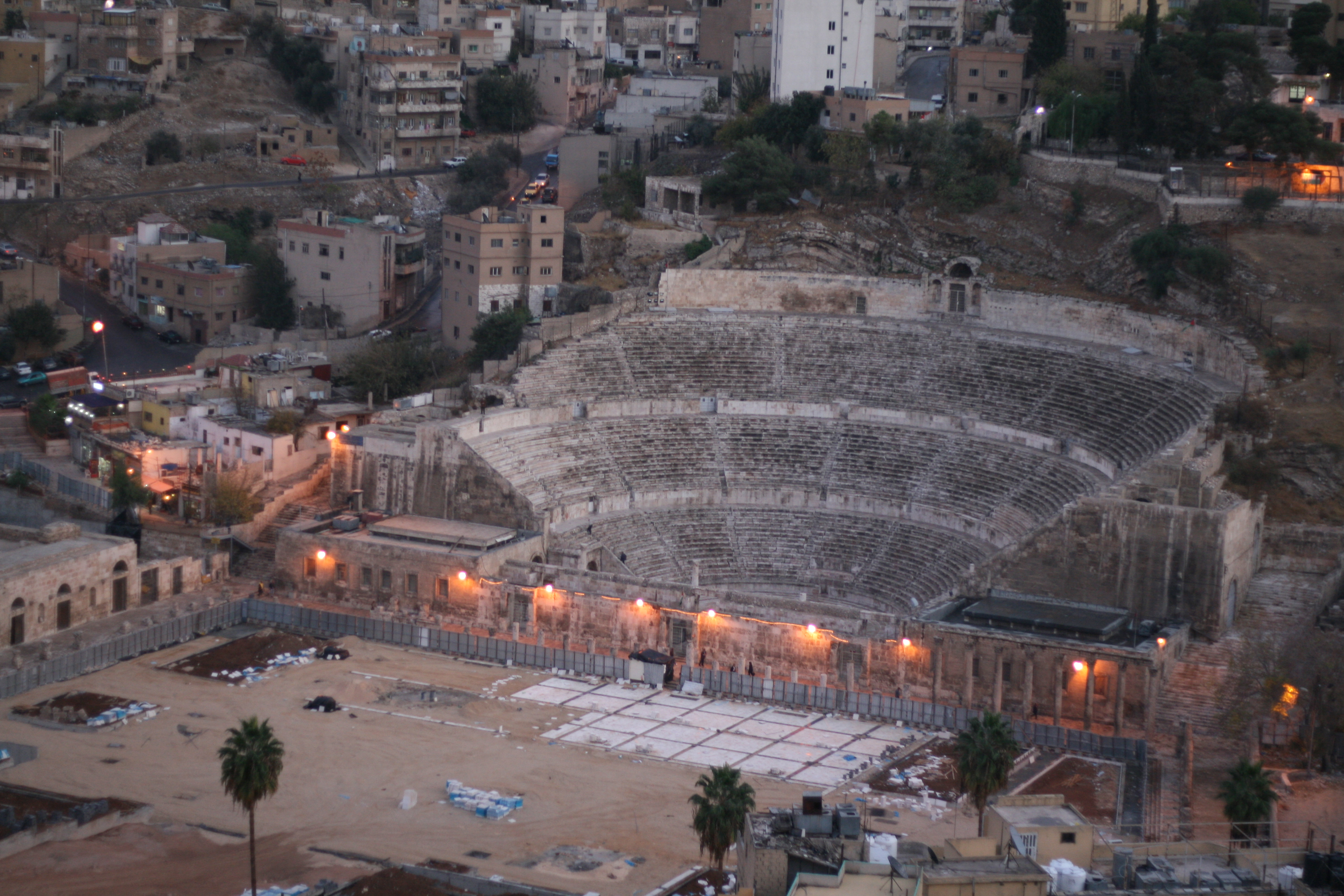 Roman Theater , Hashemite plaza Construction